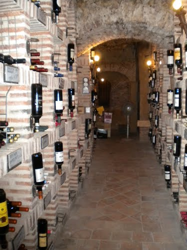 Aranda de Duero is a Spanish town and municipality in the south of the province of Burgos, autonomous community of Castile and León. It has a population of roughly 33,000 people. The post code for the town is 09400. The closest airport is in Valladolid. Aranda de Duero is the capital of the Ribera del Duero wine region. The town is unique for having wine cellars that interconnect below the streets of the town centre. Wine clubs (peñas) celebrate special events in these cellars. Aranda de Duero is at the junction of several transport routes across Spain. The N1 autovía (known as A-1) runs north / south by Aranda, along which visitors and import/export goods travel between Madrid and the south coast. Another important road running east to west connects Portugal with important cities on the way (e.g. Zamora, Valladolid, Soria) and the east coast. Its location at the juncture of these routes has led to Aranda de Duero acquiring a growing recognition and function as a business centre. Several multinational corporations, such as Michelin and GlaxoSmithKline have large facilities in the area. A dish called "Lechazo" is a local speciality. This is roast baby lamb and is usually served with a basic salad and lots of "torta" bread for dipping in the meat juices.